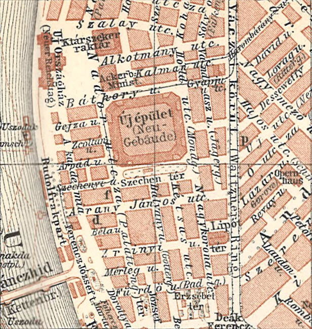 Sector of Baedeker's Budapest map of 1896 from Karl Baedeker: Allemagne du Sud et Autriche, Leipzig 1896